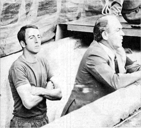 Norberto Madurga and coach Alfredo Di Stéfano on the bench during a match of Boca Juniors.